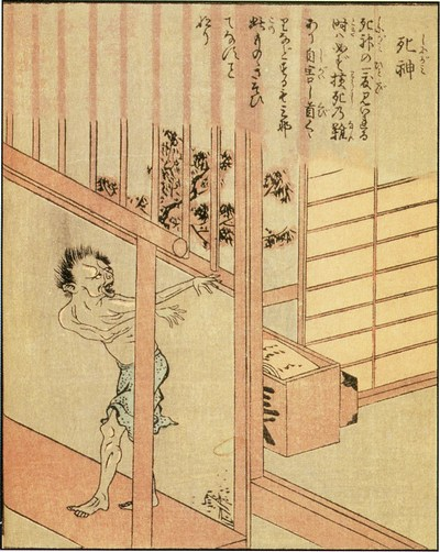 Shinigami (死神, The Japanese Grim Reaper) from the Ehon Hyaku monogatari (絵本百物語)